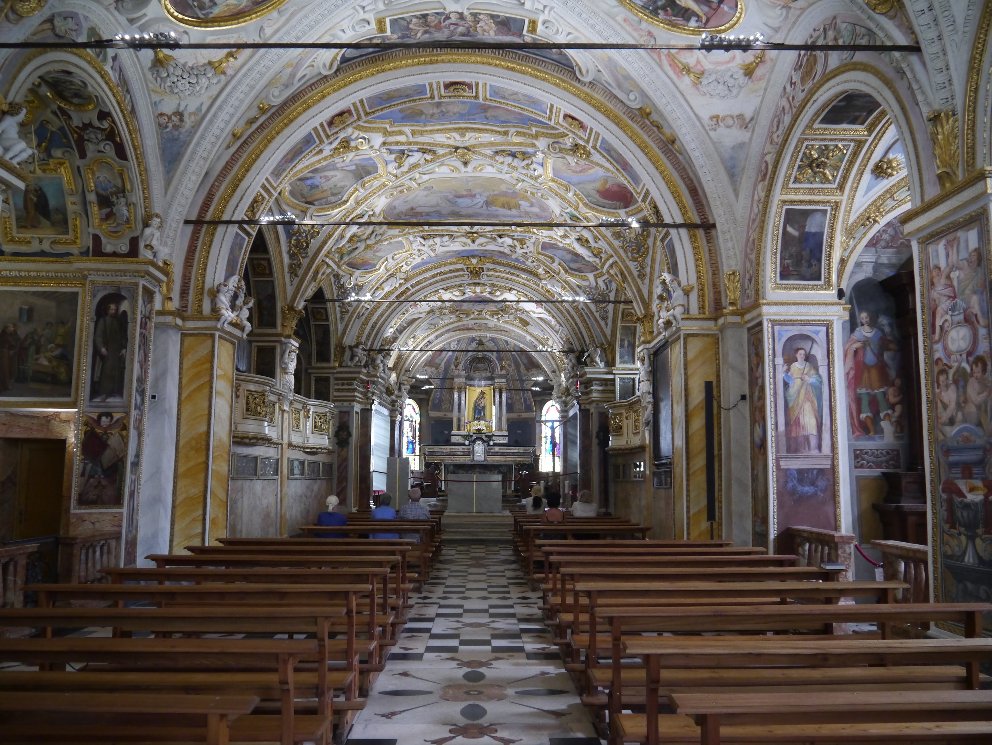 Nave of the Basilica Madonna del Sasso, Orselina, Canton of Ticino, Switzerland